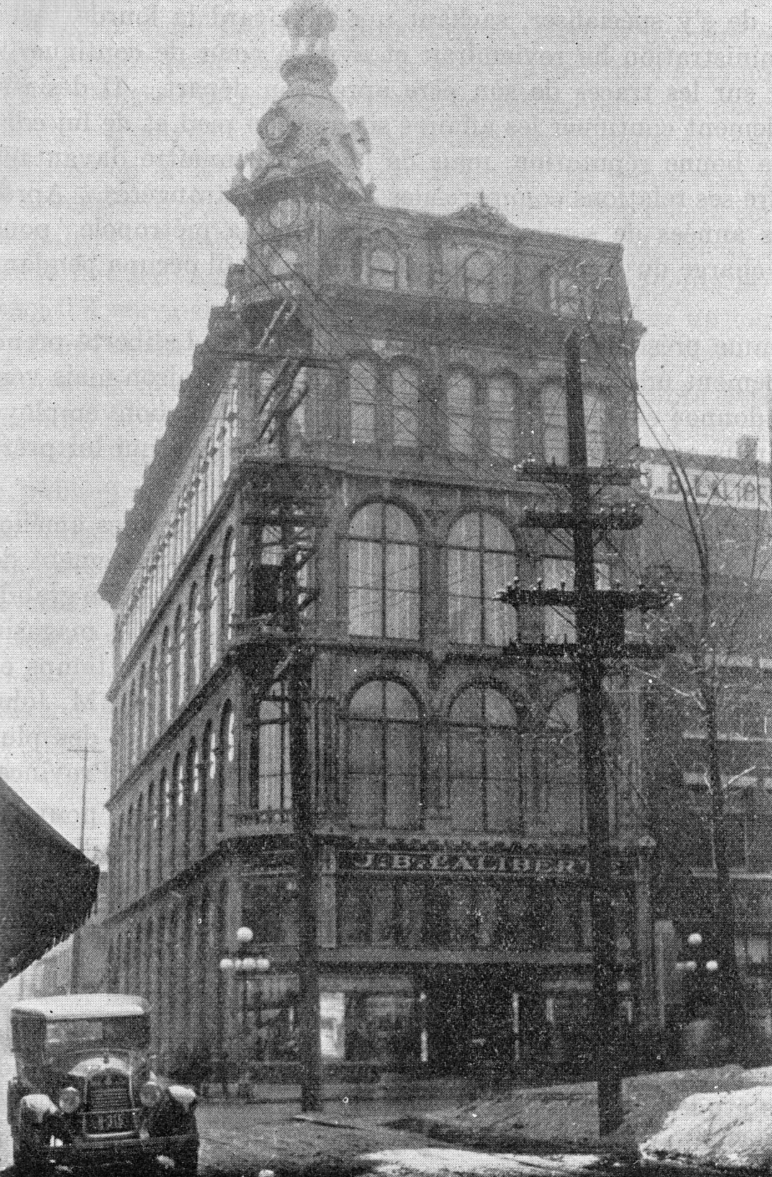 The building housing J-B Laliberté's fur and hat shop in 1929.